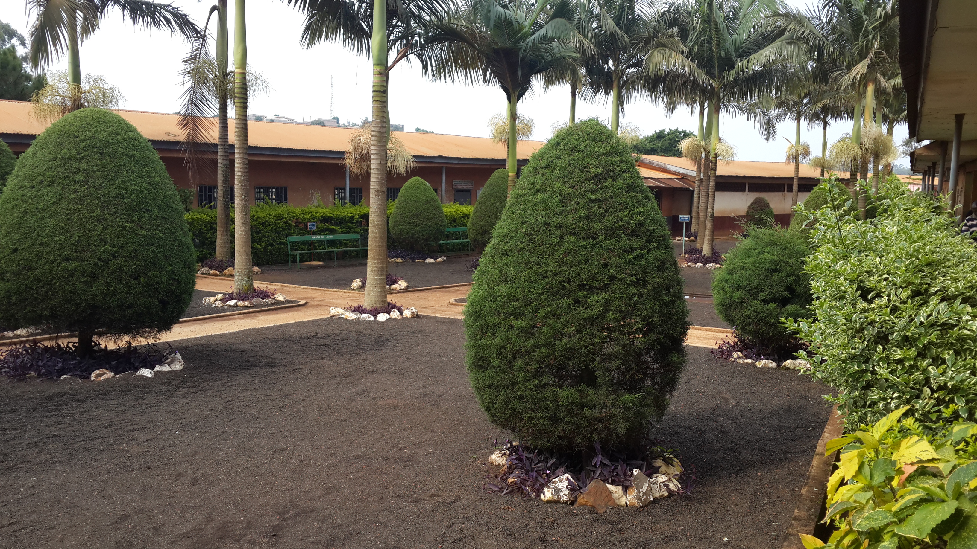 partial view of Government Bilingual High School Bafoussam vu partielle du Lycee Bilingue de Bafoussam